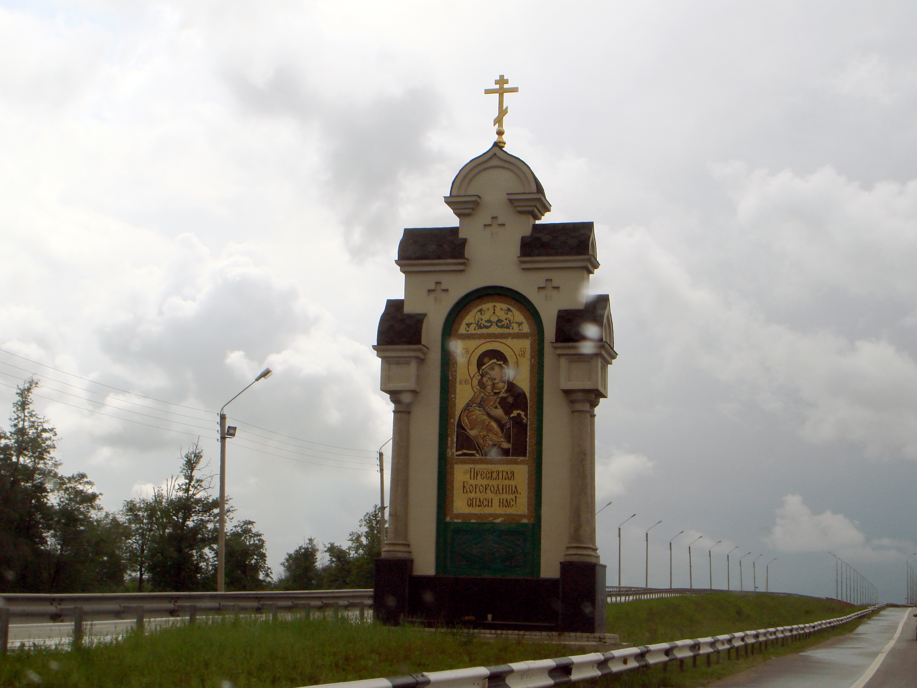 "Mother of God, save us!" written on large icon at federal route M7 "Volga" near N.Novgorod.